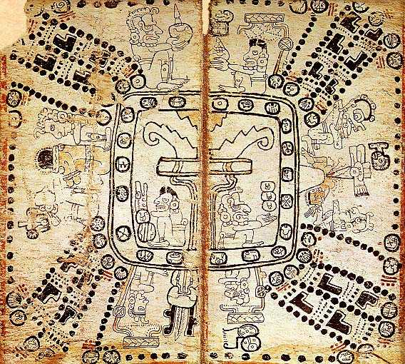 The 260-day calendar, Codex_Tro-Cortesianus_ff_75-76